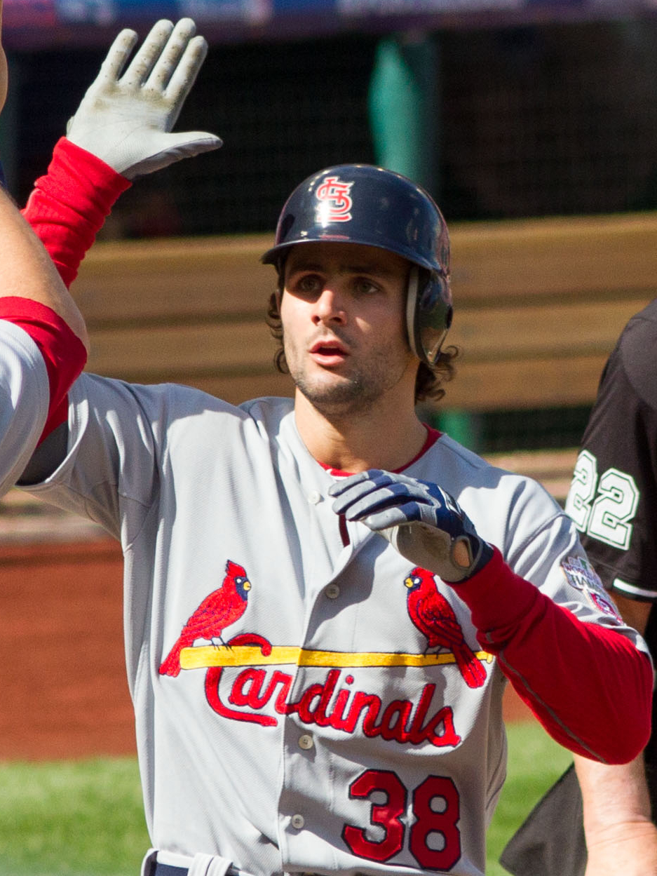 St. Louis Cardinals shortstop Pete Kozma – St. Louis Cardinals at Washington Nationals. NLDS Game 3. October 10, 2012.